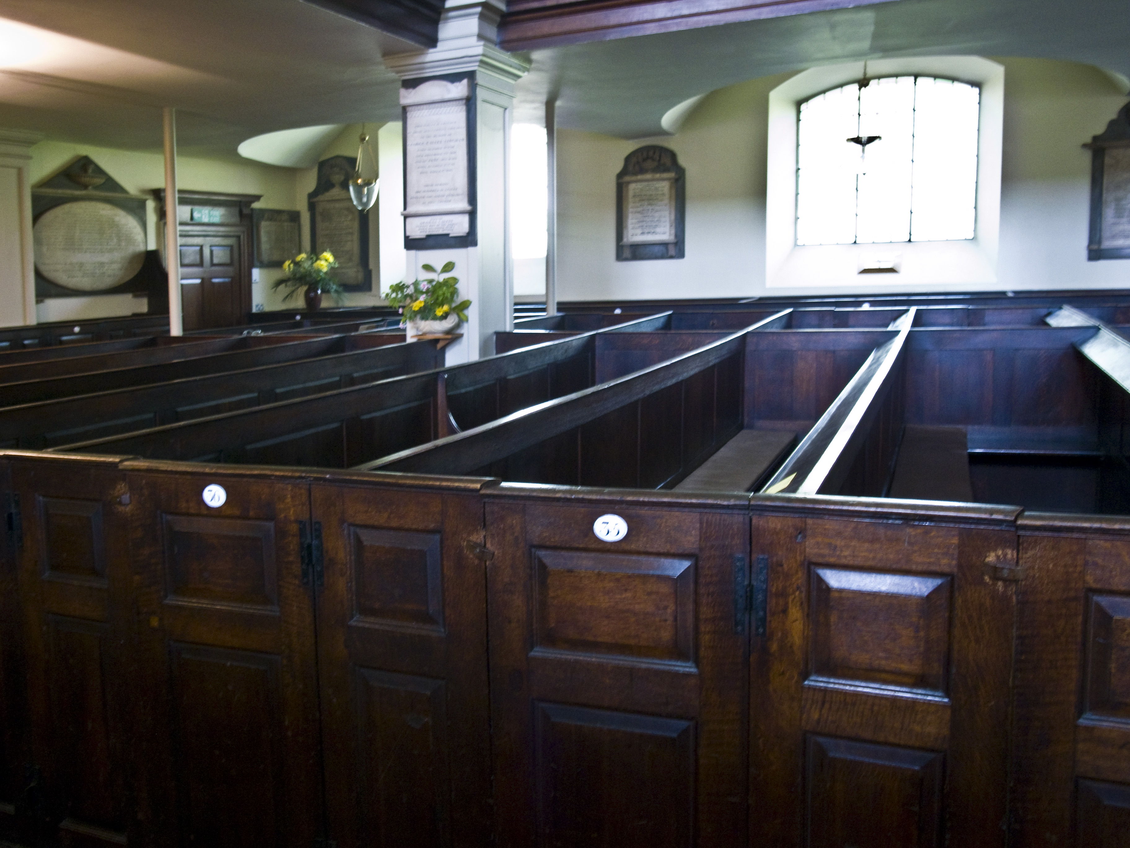 Wooden box pews in St Paul's Church, in the Jewellery Quarter, Birmingham, England.